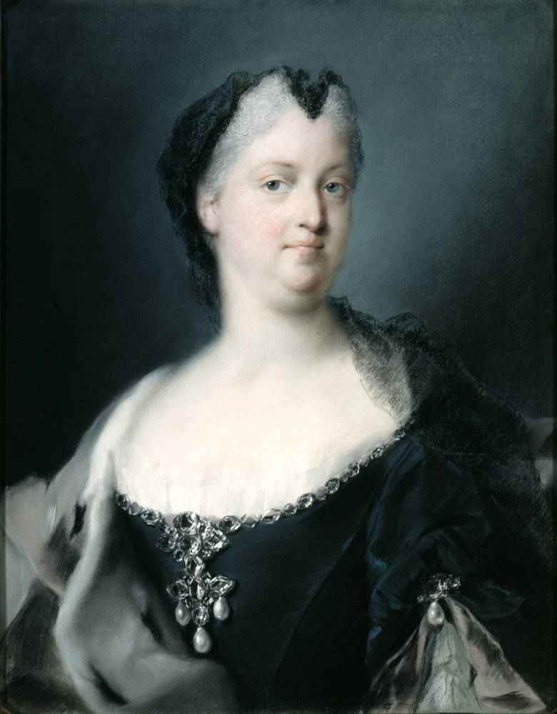 Portrait of Wilhelmine Amalia of Brunswick-Lüneburg (1673-1742), Holy Roman Empress